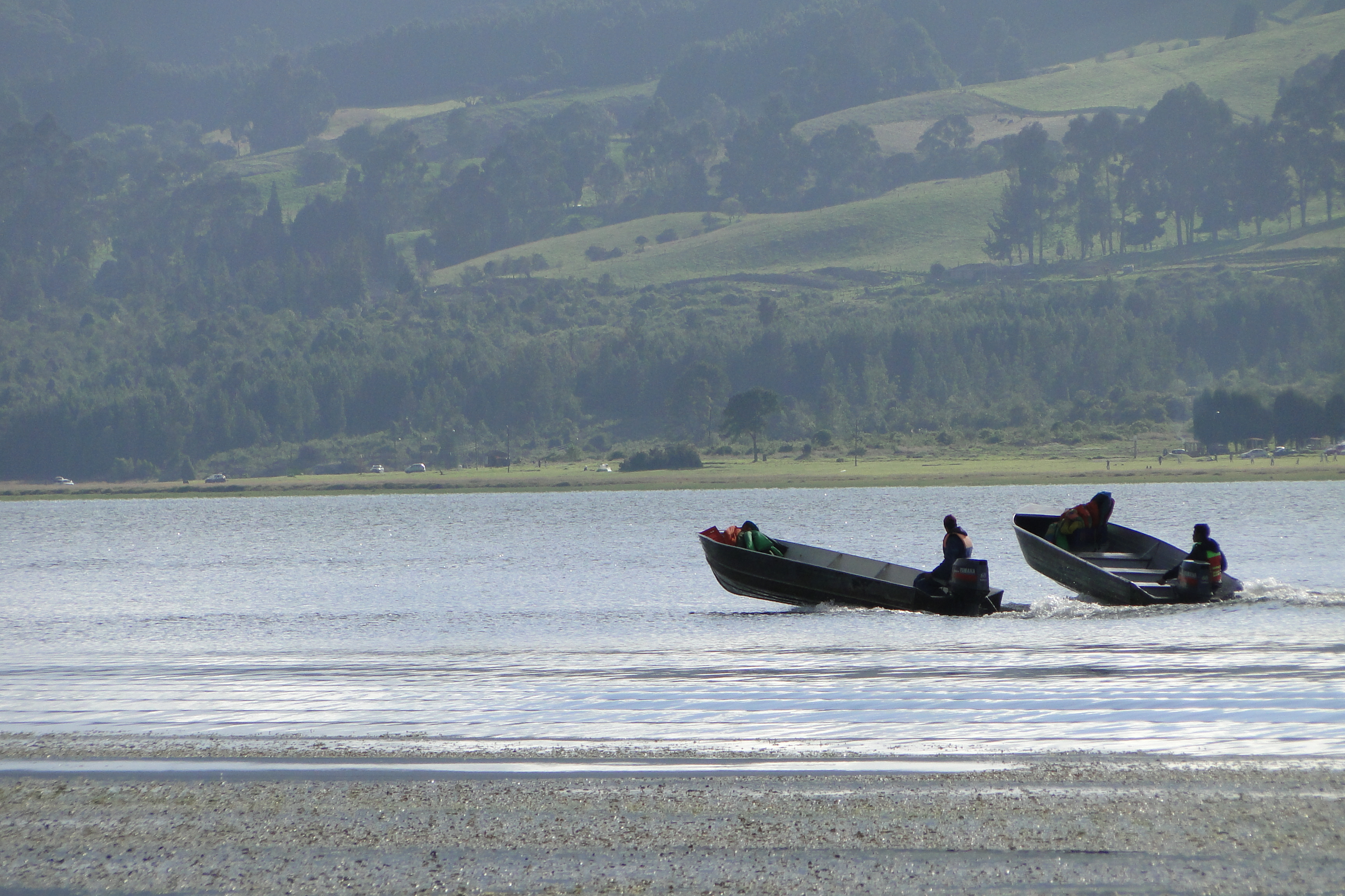 lanchas en el embalse del neusa